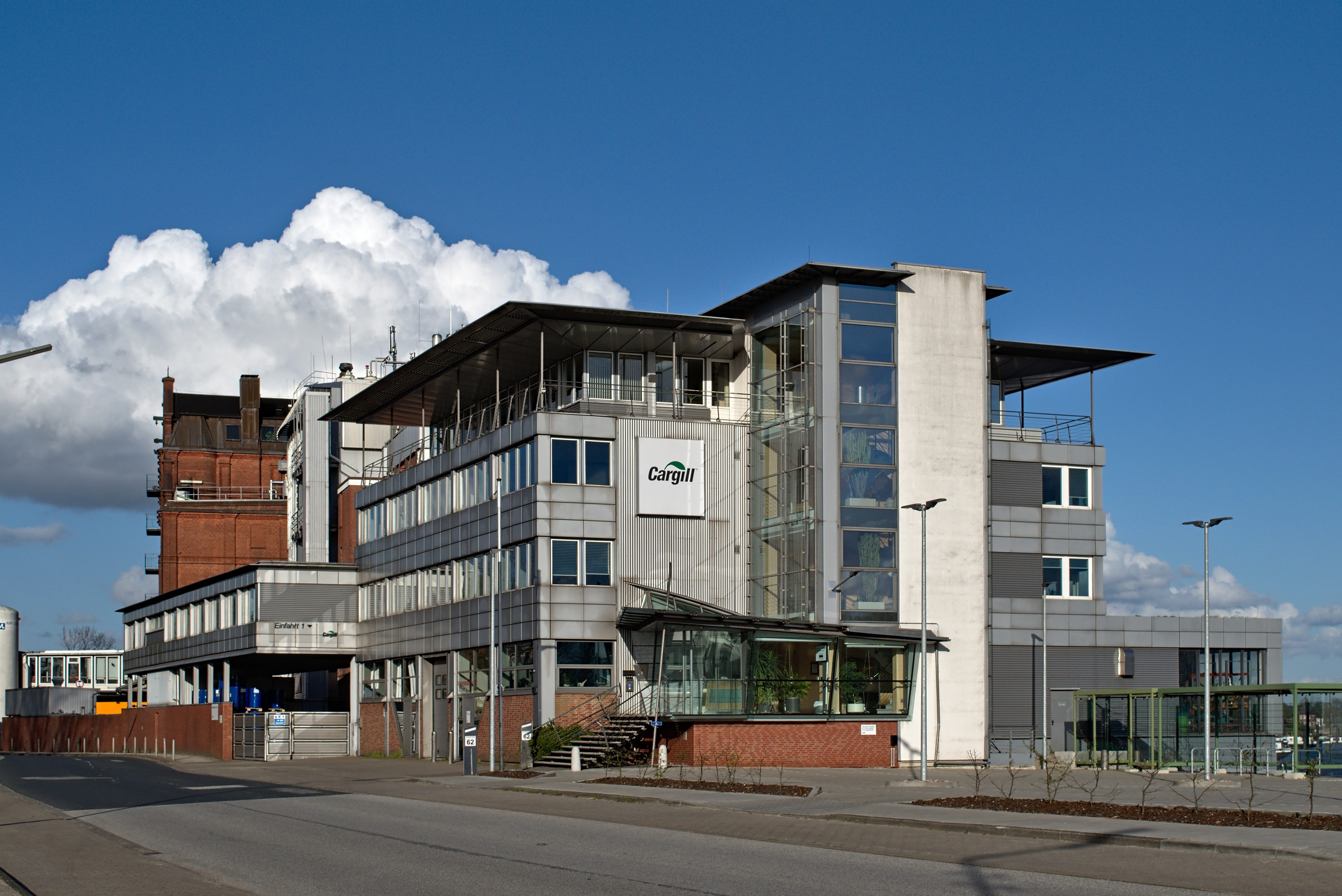 Cargill Texturizing Solutions Deutschland plant on Ausschläger Elbdeich 62, Hamburg-Rothenburgsort. Cargill makes lecithin and phospholipids here. The site was for a long time owned by Lucas Meyer (“The Lecithin People”), a family-owned German lecithin company. It consists not only of the modern building in the foreground but also encompasses a historical warehouse building from 1889/1890, visible in the background and also in this picture.